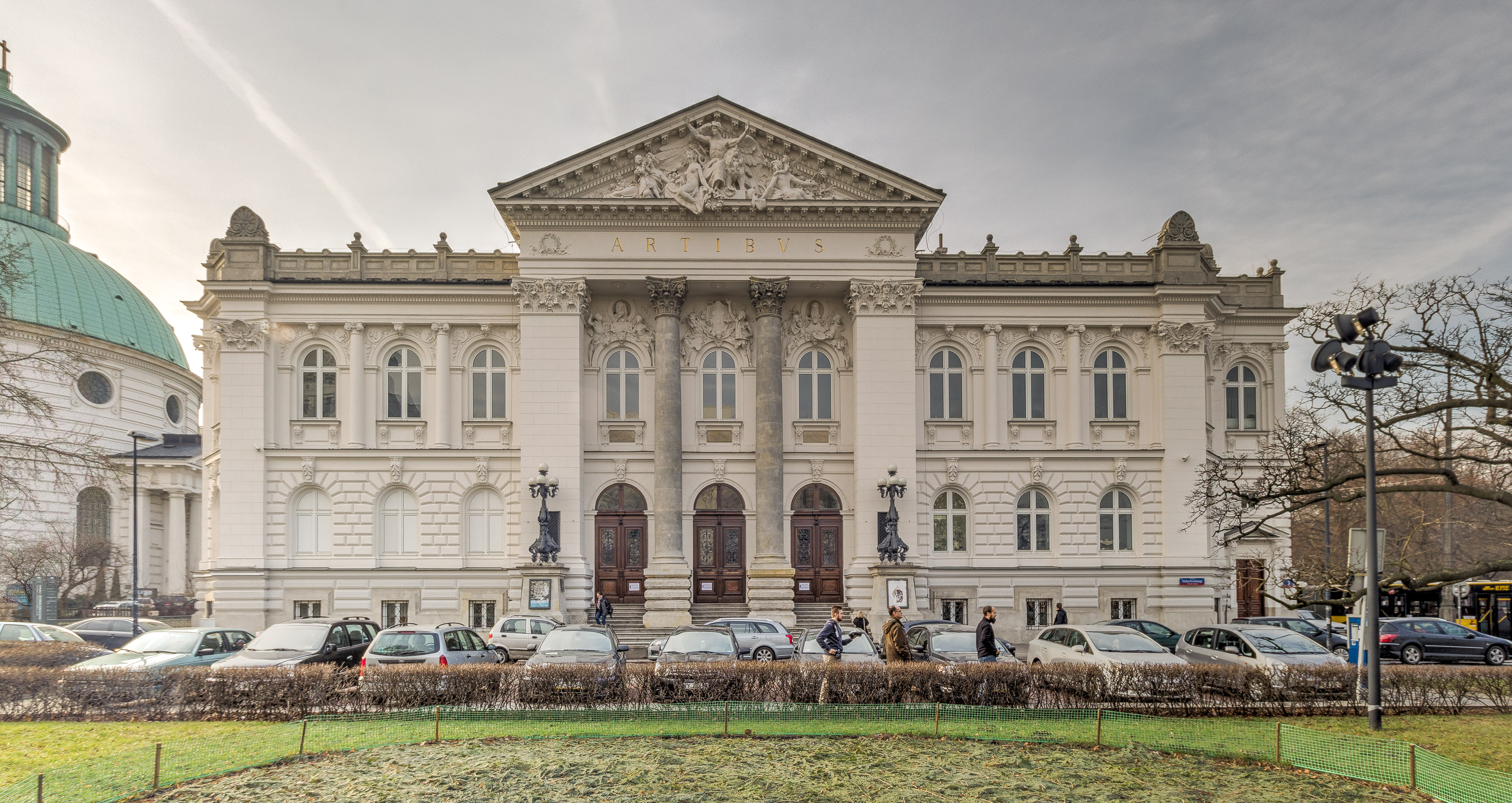 This file was uploaded to Wikimedia Commons by participants of Zachęta do Wikipedii, a GLAM-Wiki event organised at Zachęta - National Gallery of Art as part of a partnership project with Wikimedia Polska. Polski | English | +/−